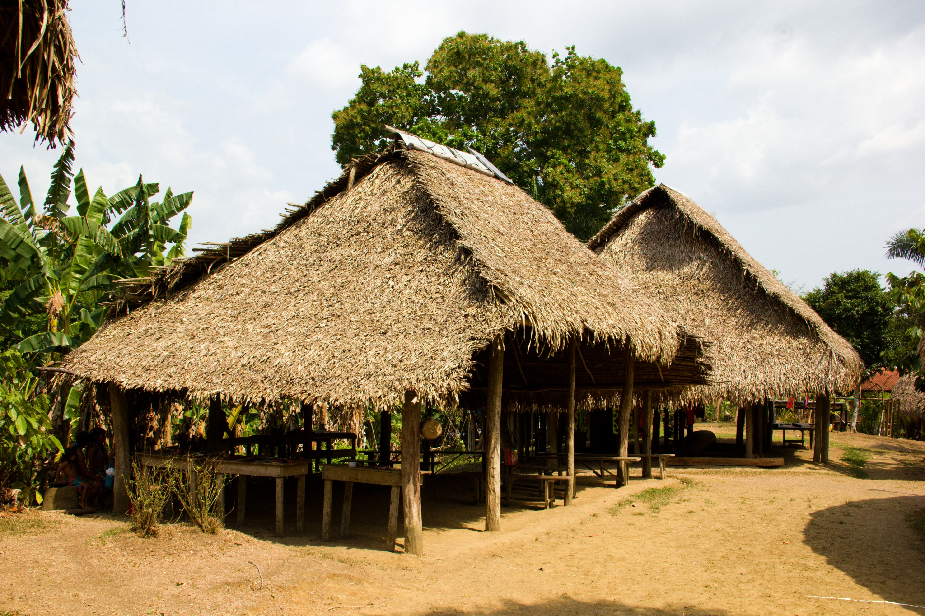 Community located on Gatun Lake shores. Panama.